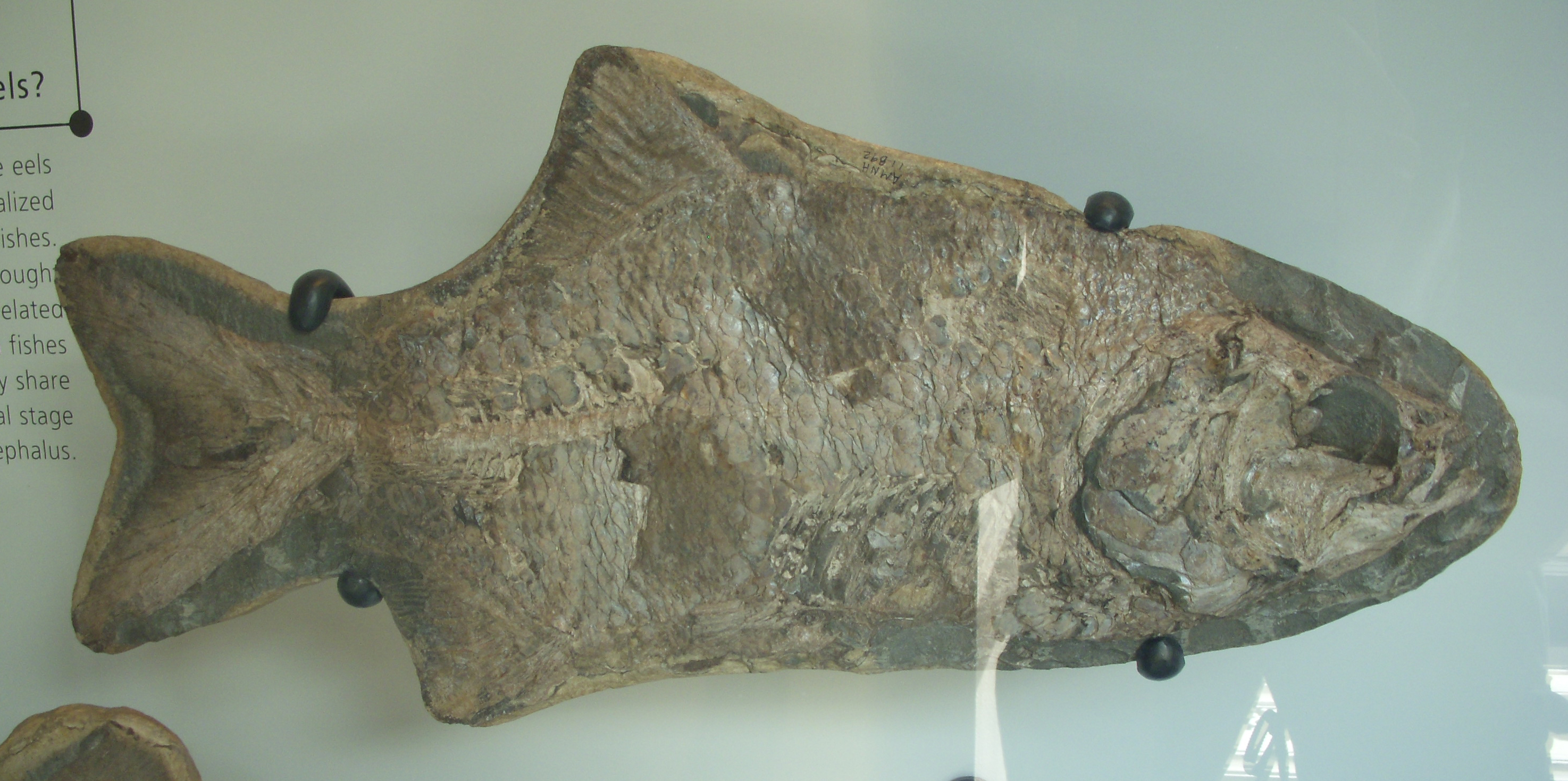 Fossil of Brannerion sp. (AMNH 11892) in the American Museum of Natural History.